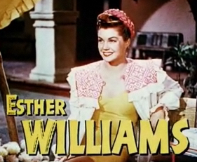 Cropped screenshot of Esther Williams from the trailer for the film Fiesta